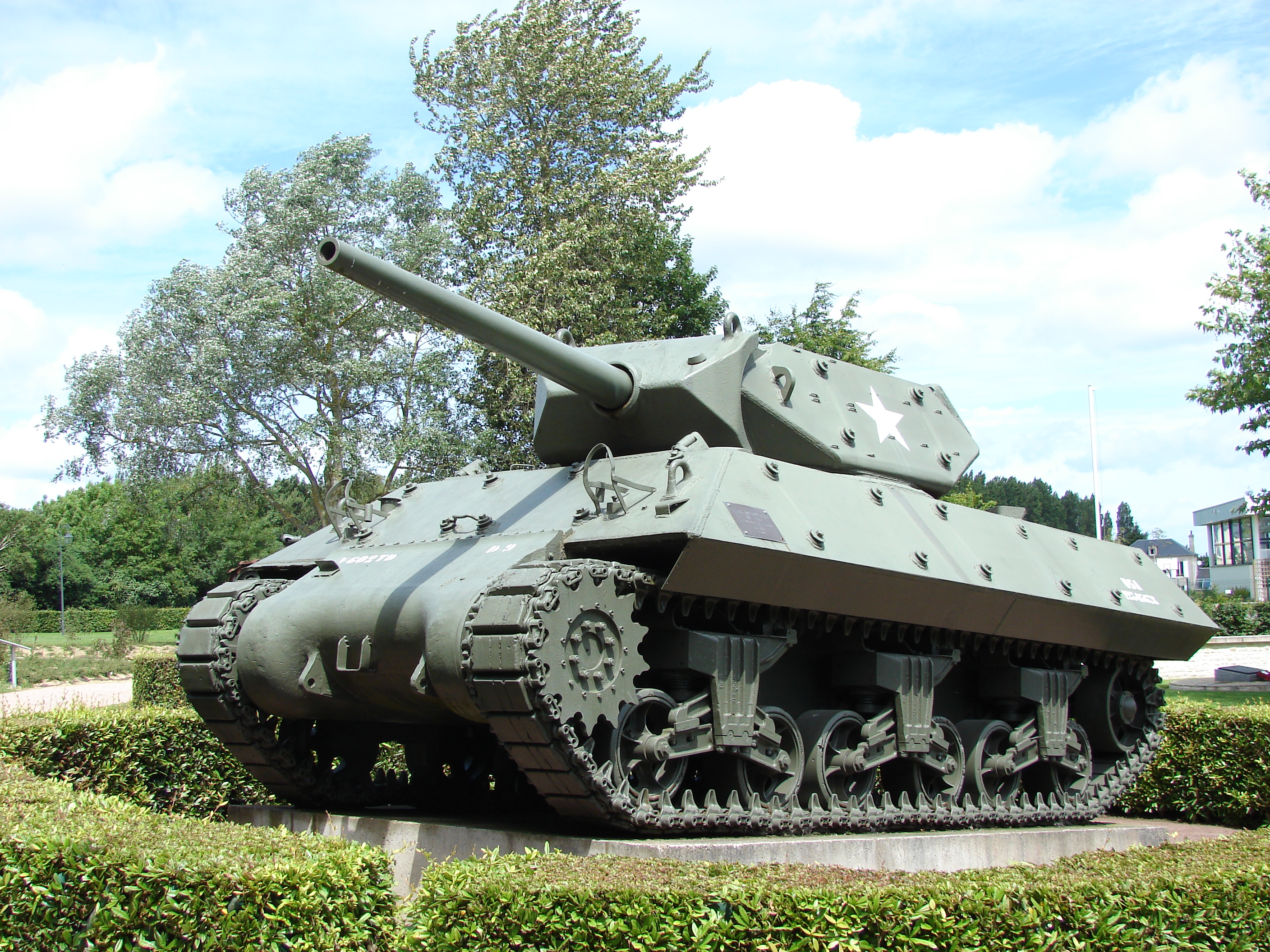 US Tank Destroyer M10, Bayeux, Lower Normandy, France